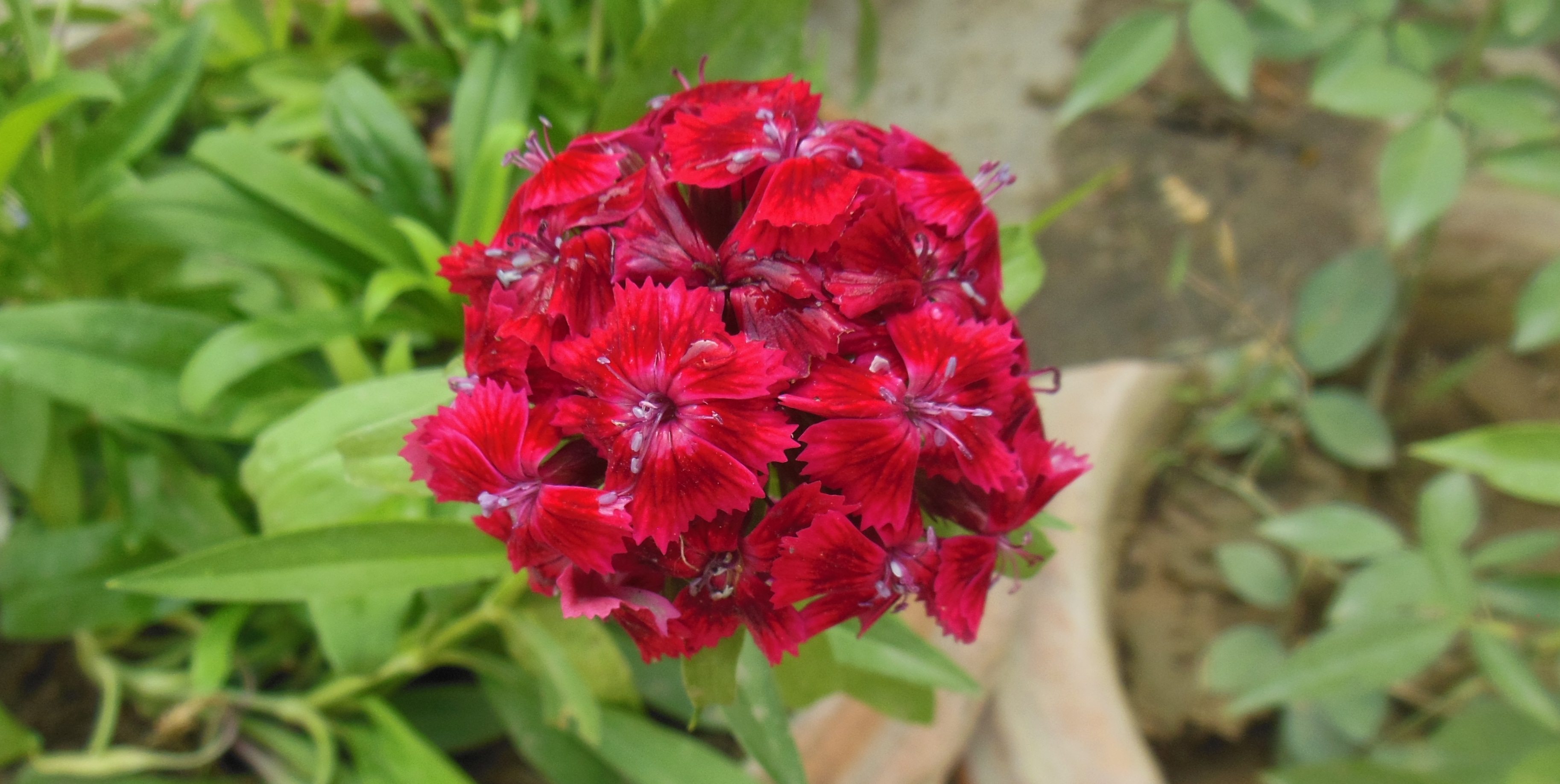 Sweet William is a herbaceous biennial or short-lived perennial plant native to the mountains of southern Europe from the Pyrenees east to the Carpathians and the Balkans, with a variety disjunct in northeastern China, Korea, and southeasternmost Russia